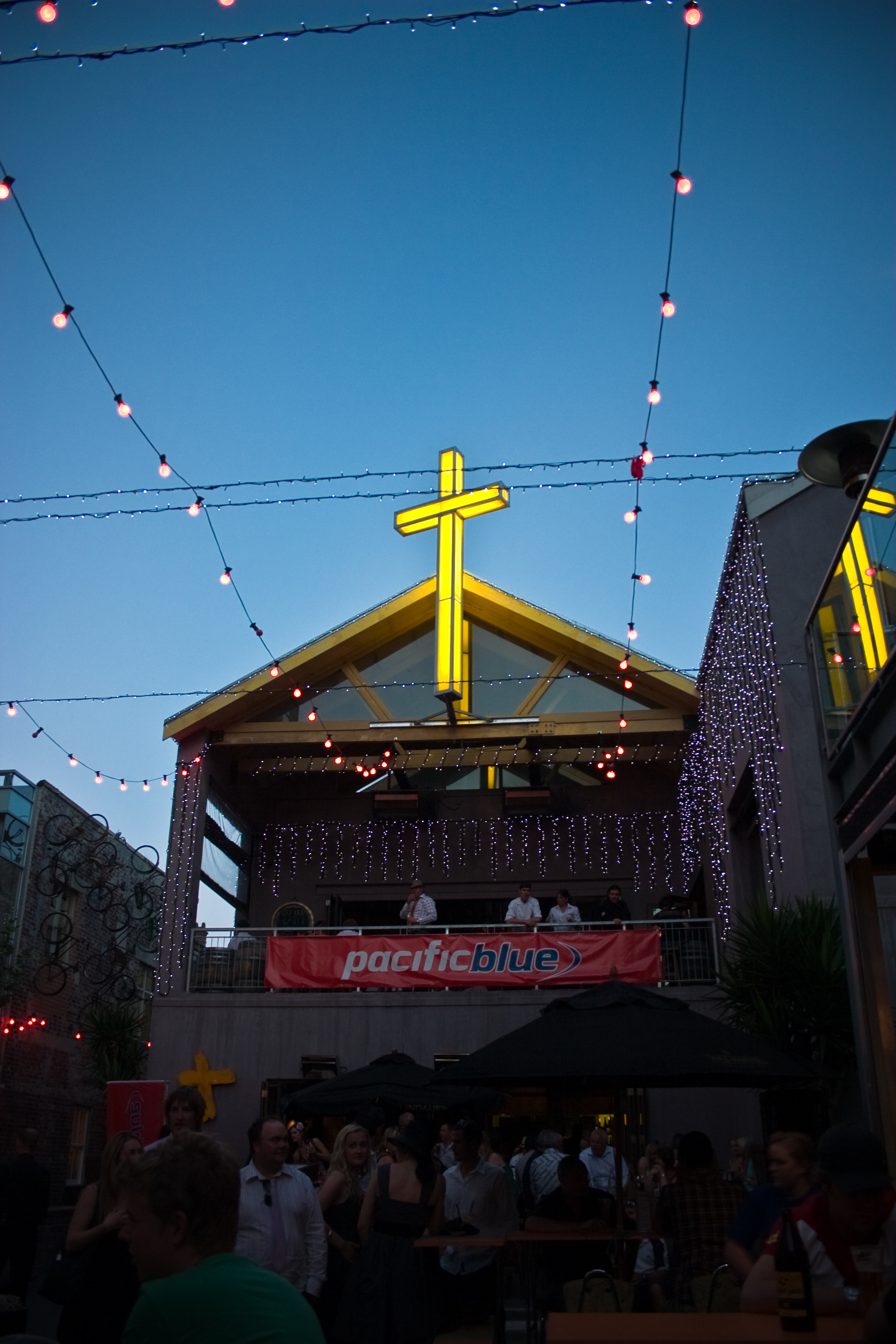 South of Lichfield (SOL) Square in Christchurch, a development by Property Venture. The bar in the background was styled as 'Yellow Cross', with the bar's feature having come from the Odeon Theatre. The theatre was owned by the Sydenham Assembly of God from 1983 to 2003, during which time the yellow cross was added to the building's facade.